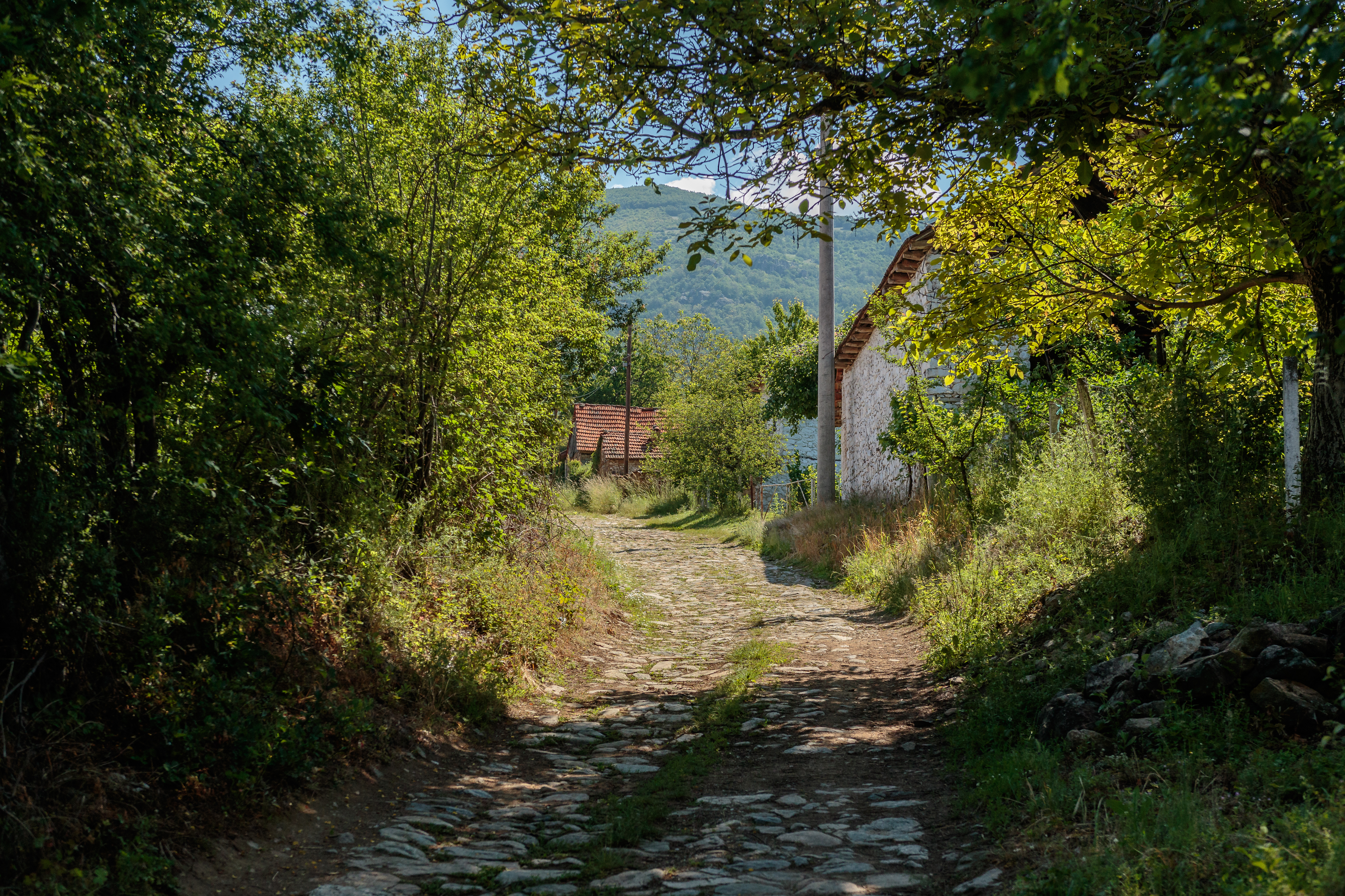 Entry in the village Rastojca